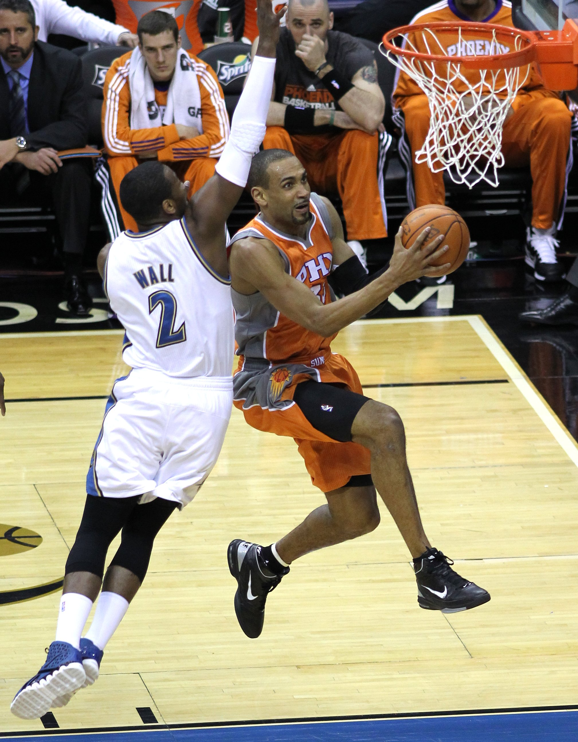 Washington Wizards v/s Phoenix Suns January 21, 2011